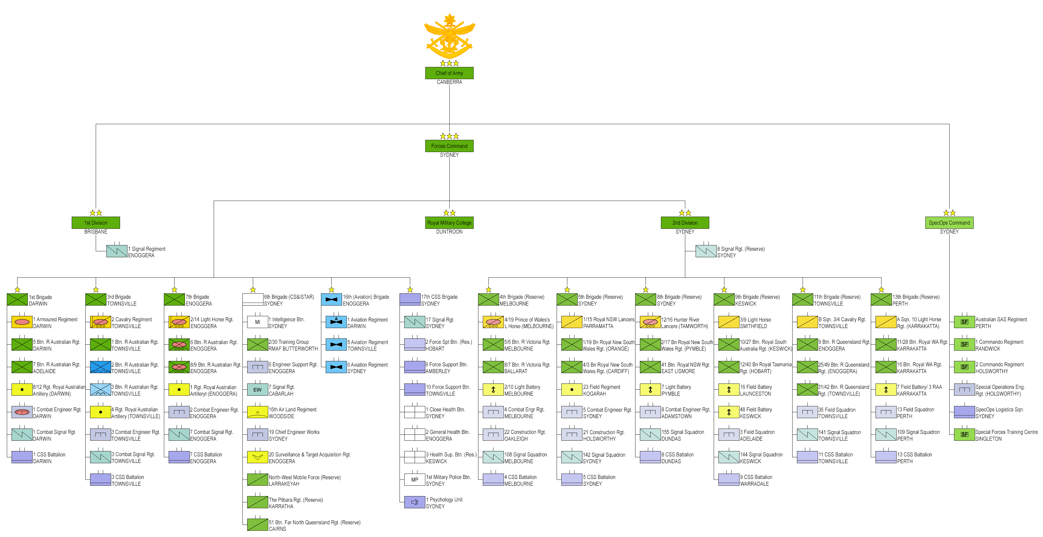 Australian Army 2012 structure (and with minor updates from September 2013) - according to Australian Army Homepage